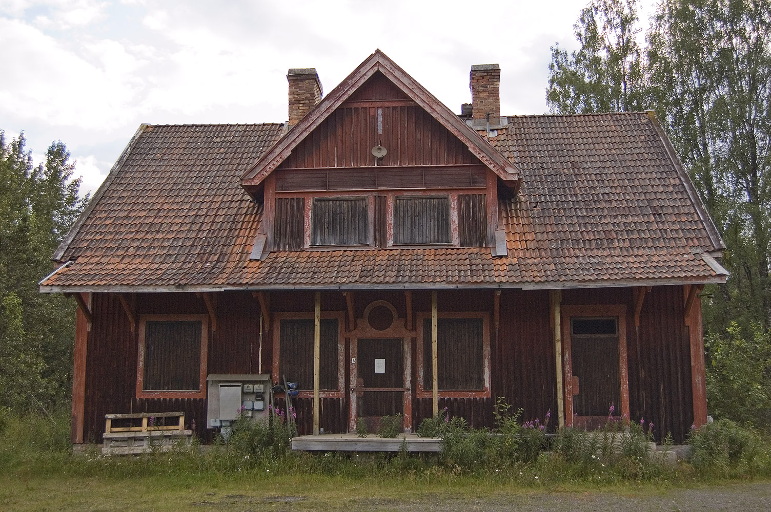 Åskott railway station on the Inlandsbanan.